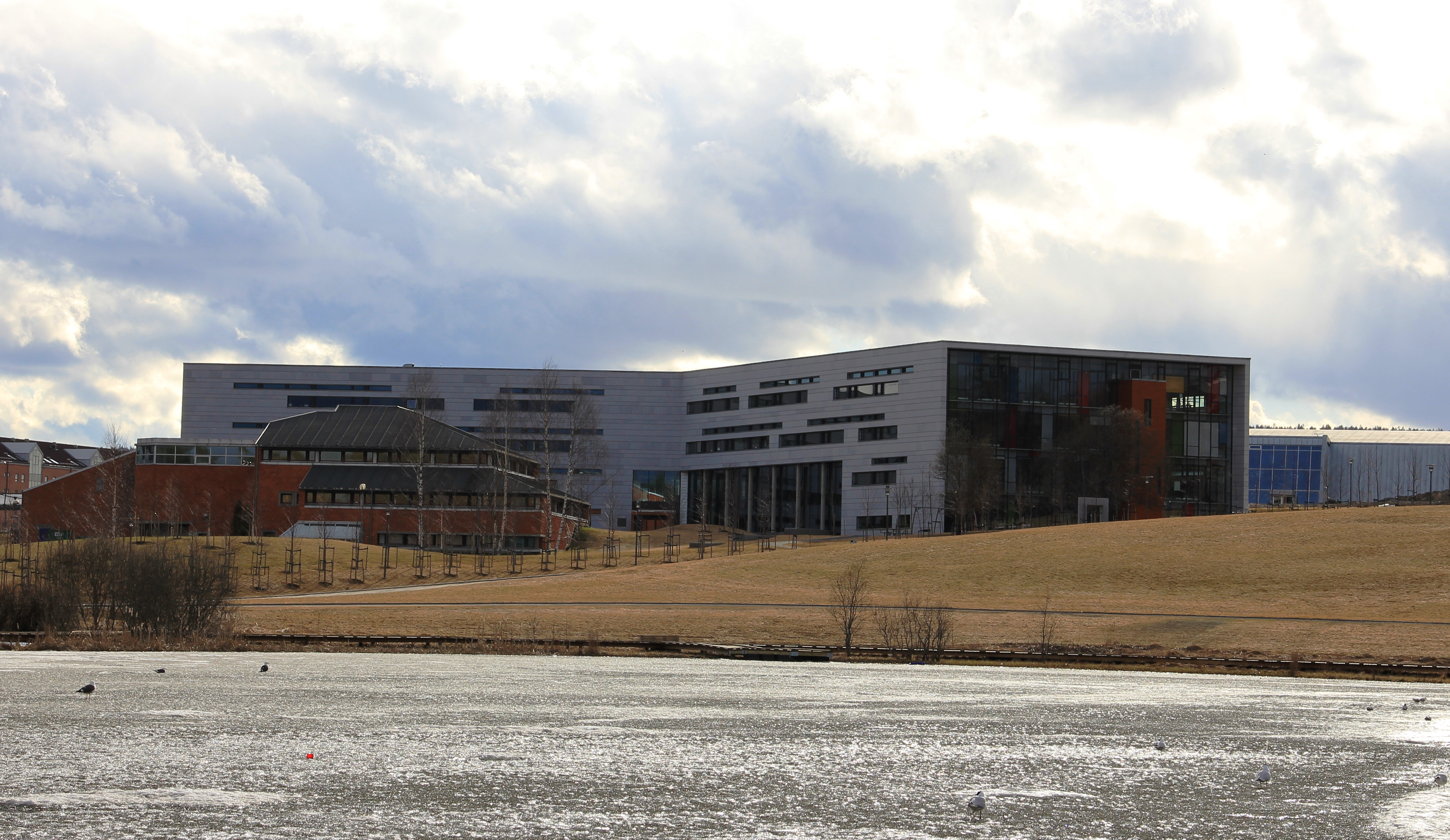 Mailand upper secondary High School, Lørenskog, Akershus, Norway